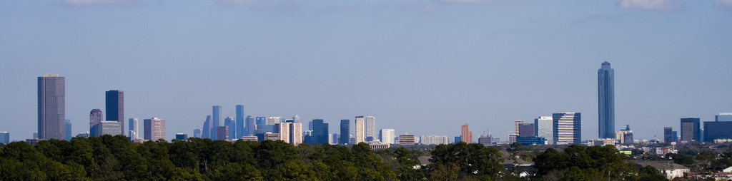 Skylines of Downtown Houston and Uptown Houston - Houston, Texas, United States